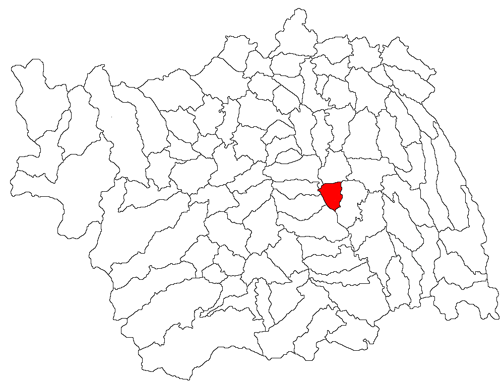 Locator map of the commune of Gioseni, Bacău